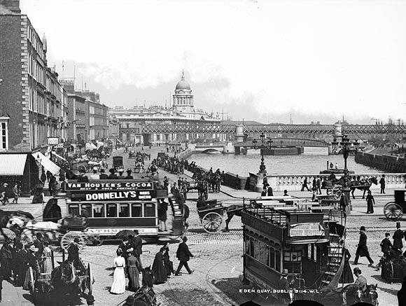 Eden Quay and O'Connell Bridge, Dublin 1900